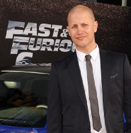 Benjamin Davies Actor at Fast & Furious 6, LA.